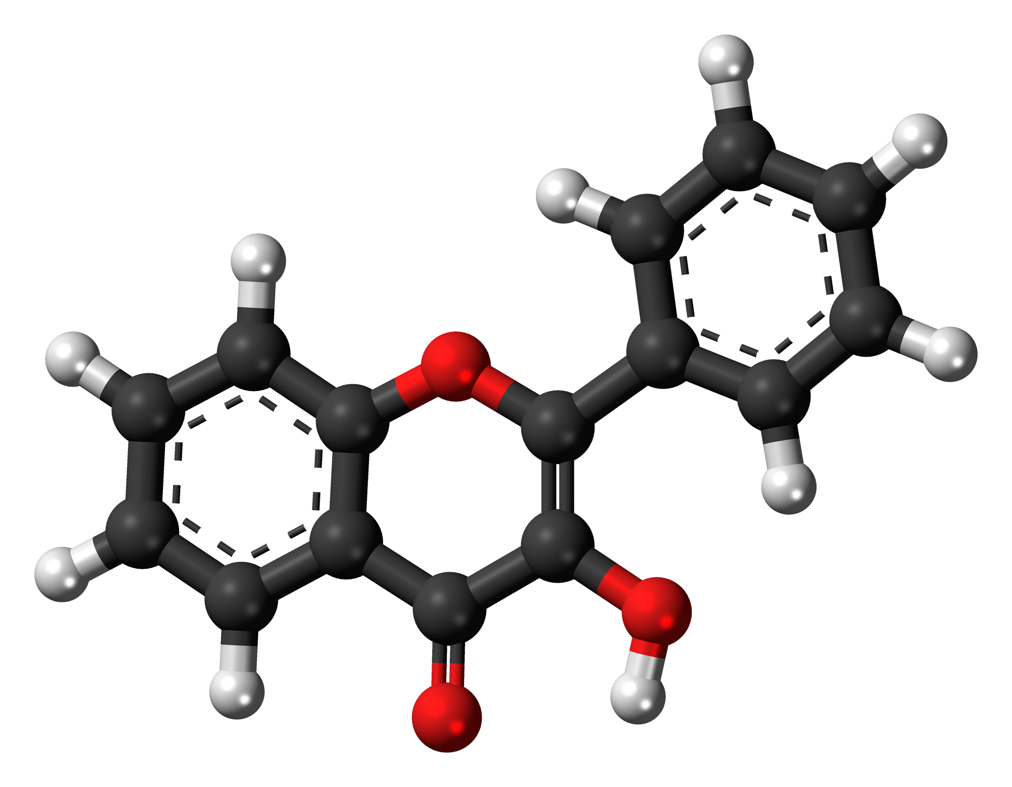 Ball-and-stick model of the 3-hydroxyflavone molecule, the parent compound of the flavonols family. Colour code: Carbon, C: black Hydrogen, H: white Oxygen, O: red